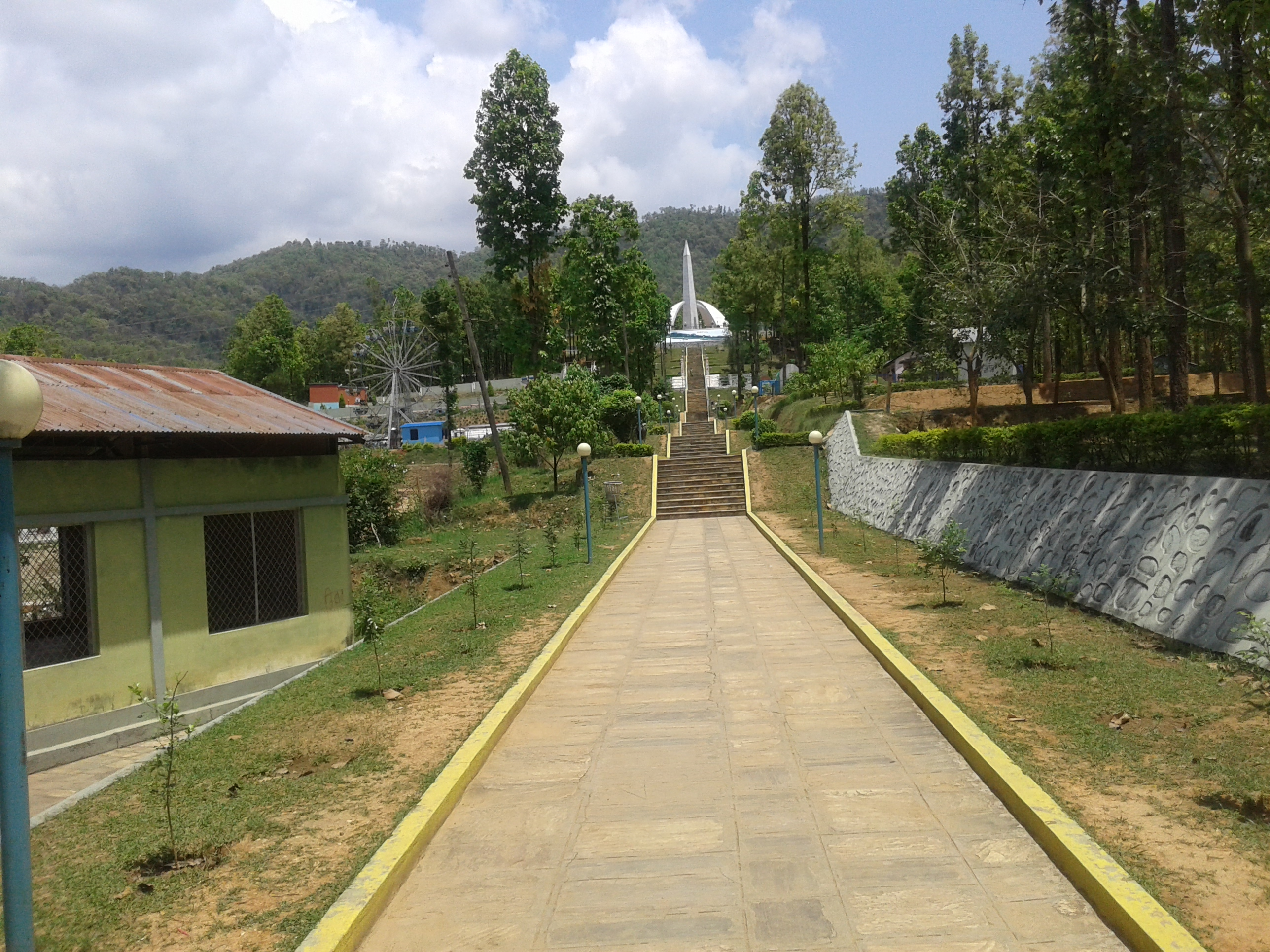 Path to park and Map of Nepal